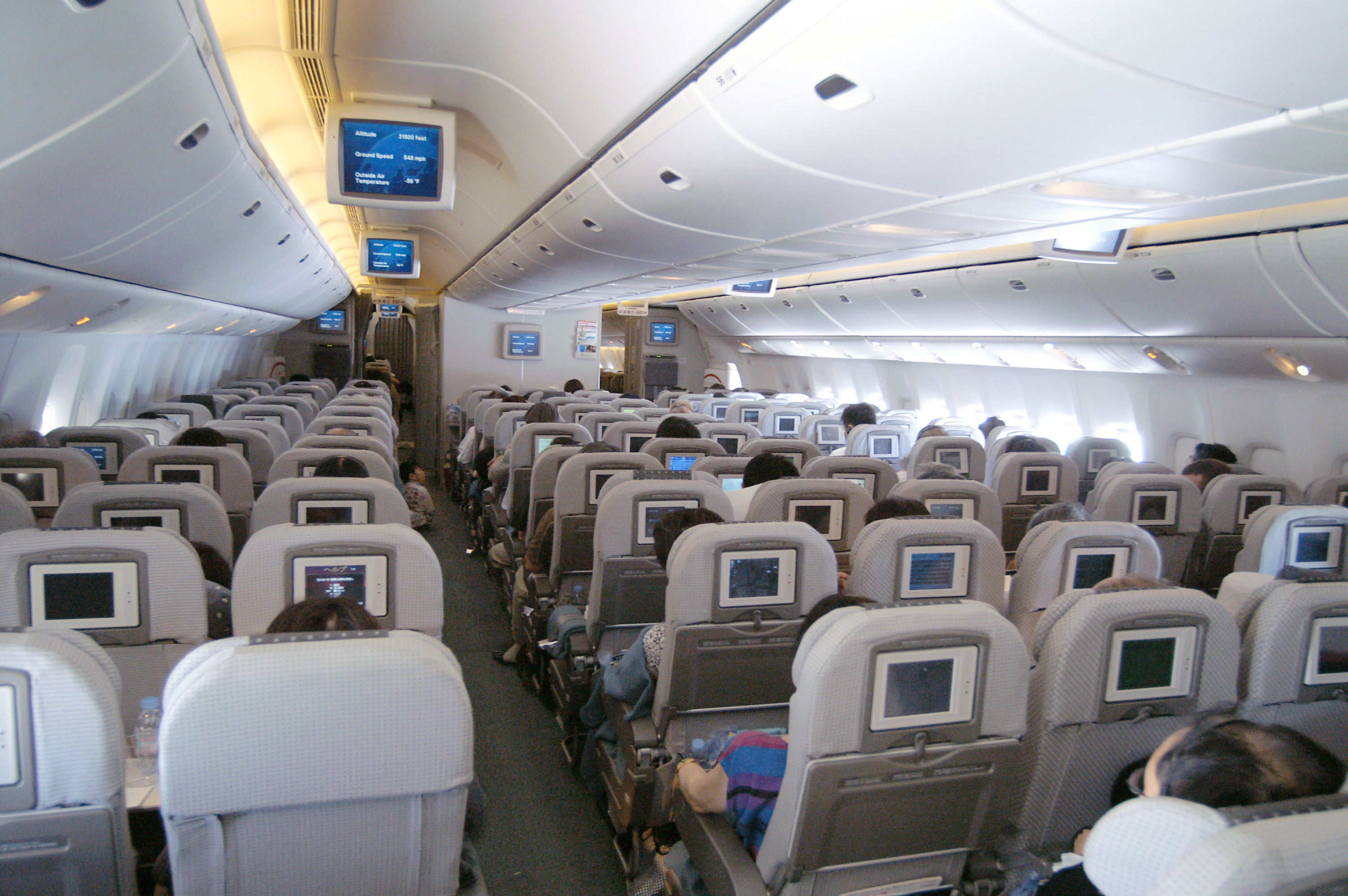 (2007/07/30 In Flight, JL421)